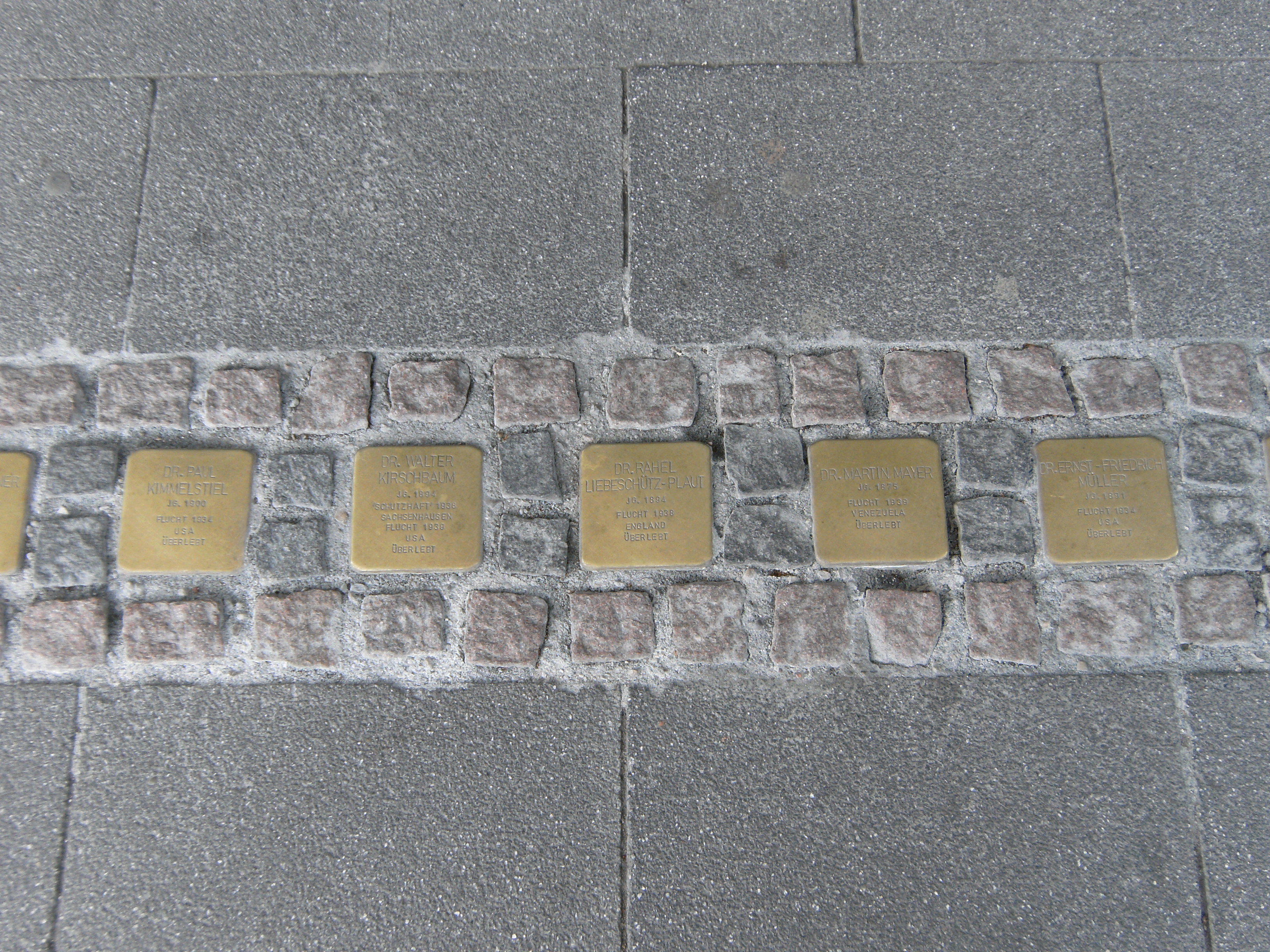 At the entrance to the Neues Klinikum O10 of the Universitätskrankenhaus Hamburg-Eppendorf a row of Stolpersteine (stumbling blocks) was placed to remember. Detail: Flight successful.